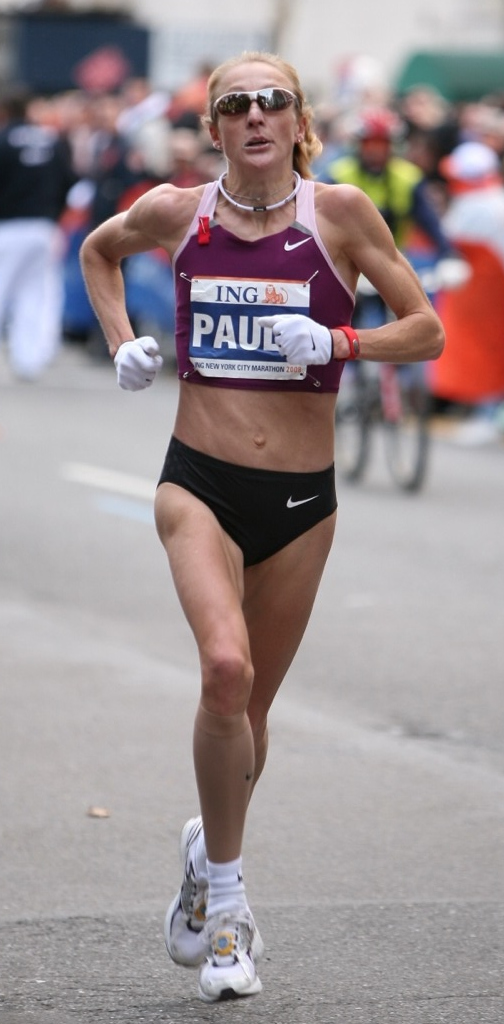 Paula Radliffe winning in New York